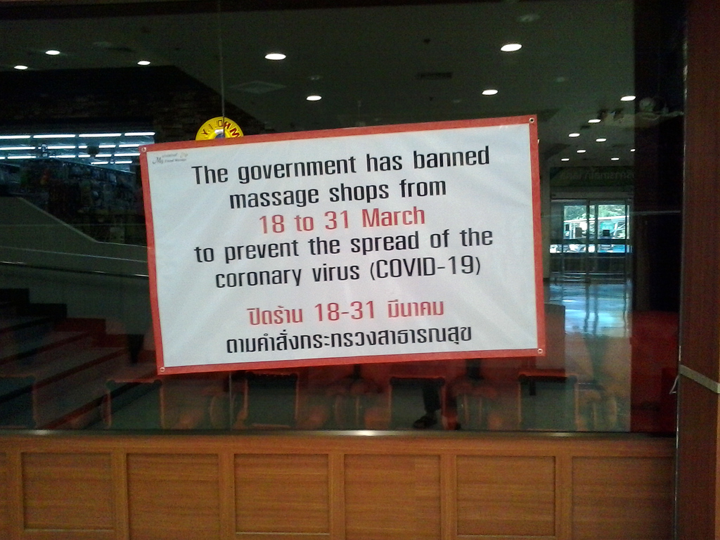 Sign in massage shop in Thai shopping mall, closed 18th to 31st March due to coronavirus.